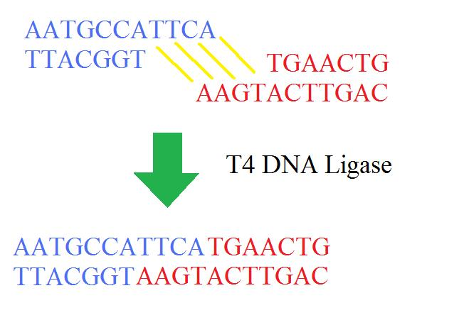 T4 DNA Ligase